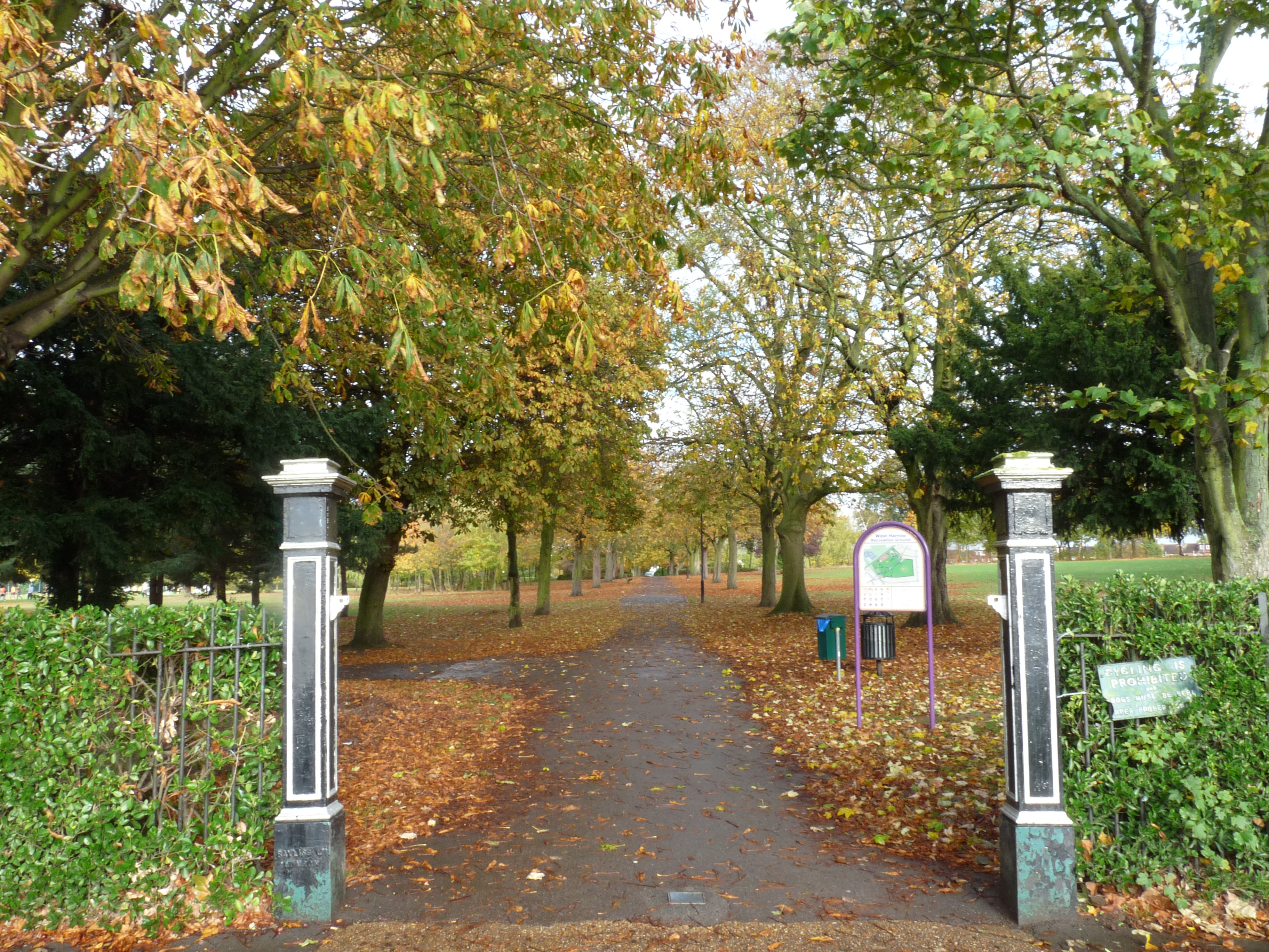 The entrance to West Harrow Park from The Ridgeway, West Harrow